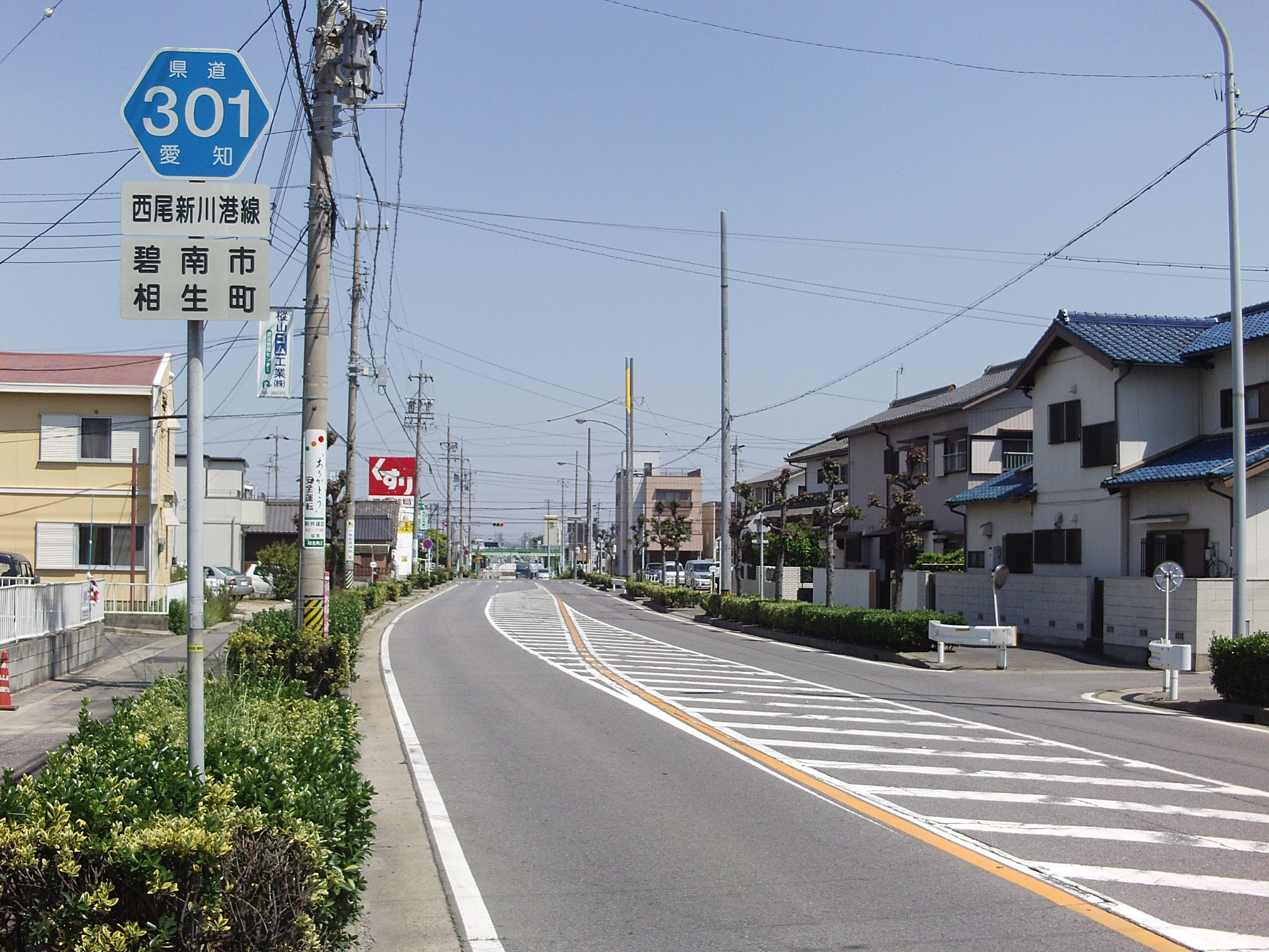 Aichi prefectural road No.301 in Aioimachi 2-chome, Hekinan, Aichi.